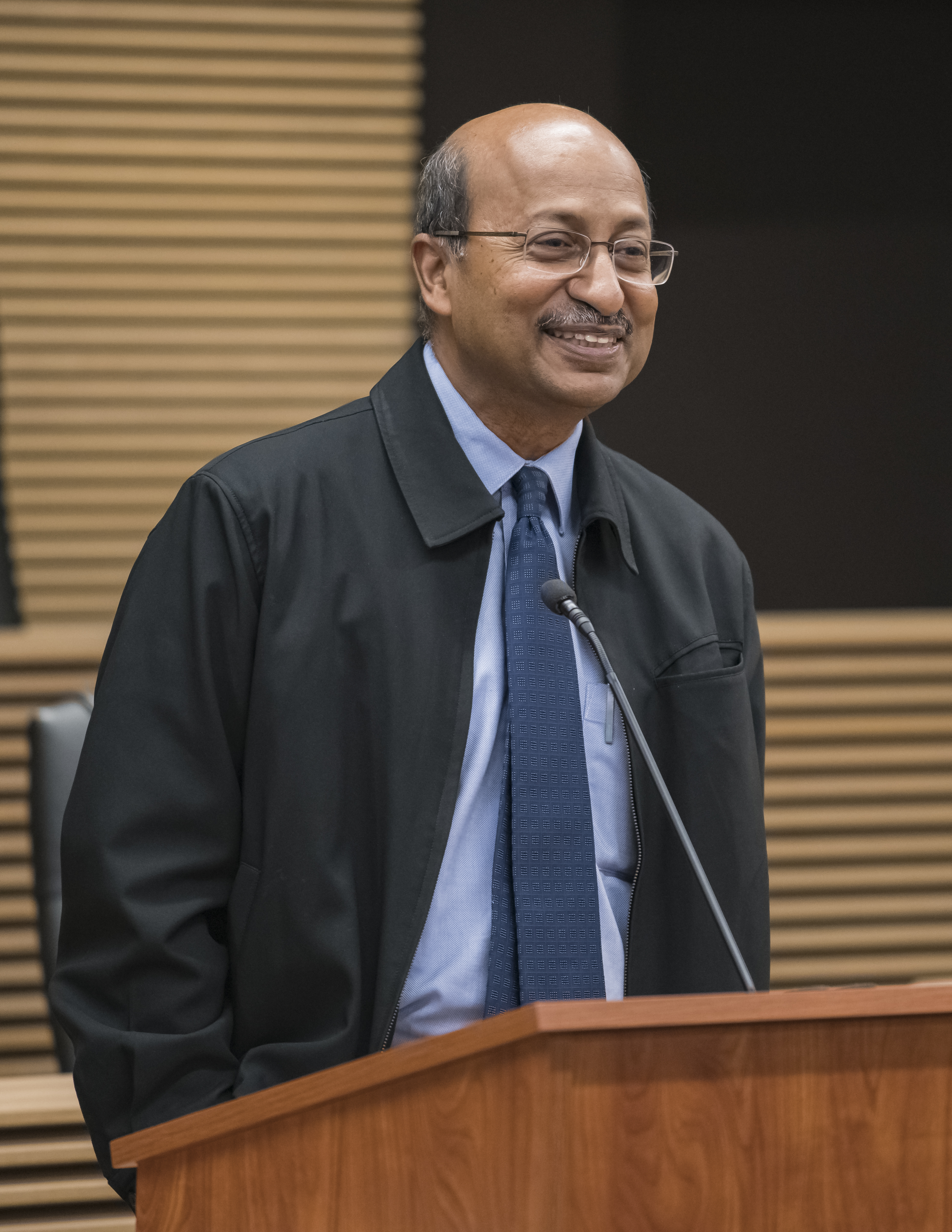 VK Rajah Singapore Management University School of Law